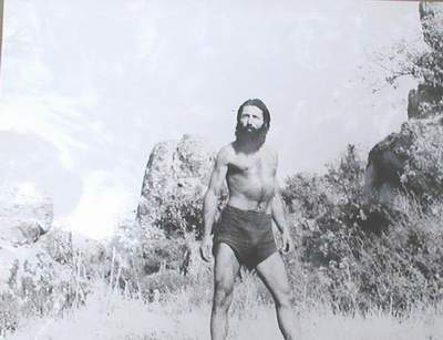 Manisa Tarzani, the first turkish environmentalist